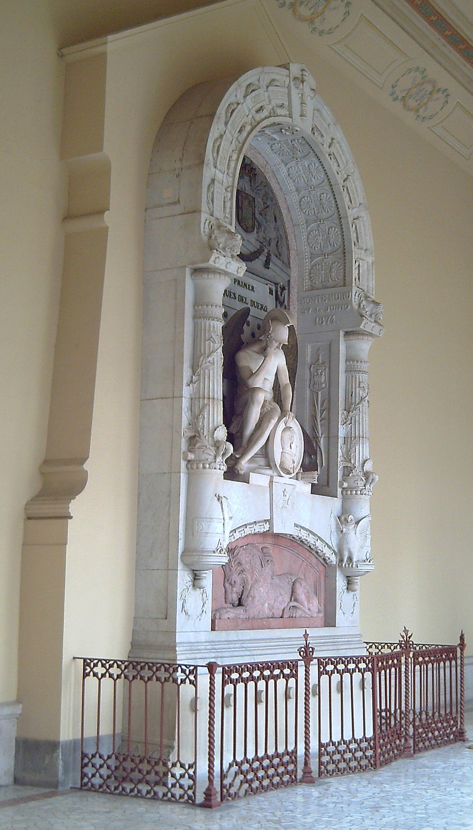 Mausoleum of Manuel Gutiérrez de la Concha (1806–1874), first marquis of Duero. Sculpted in white marble and flintstone by Arturo Mélida y Alinari (1849–1902) and Elías Martín. It is at the Panteón de Hombres Ilustres (Pantheon of Illustrious Men) in Madrid (Spain).